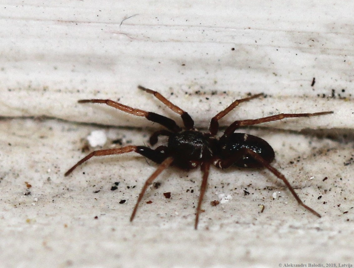 Micaria pulicaria